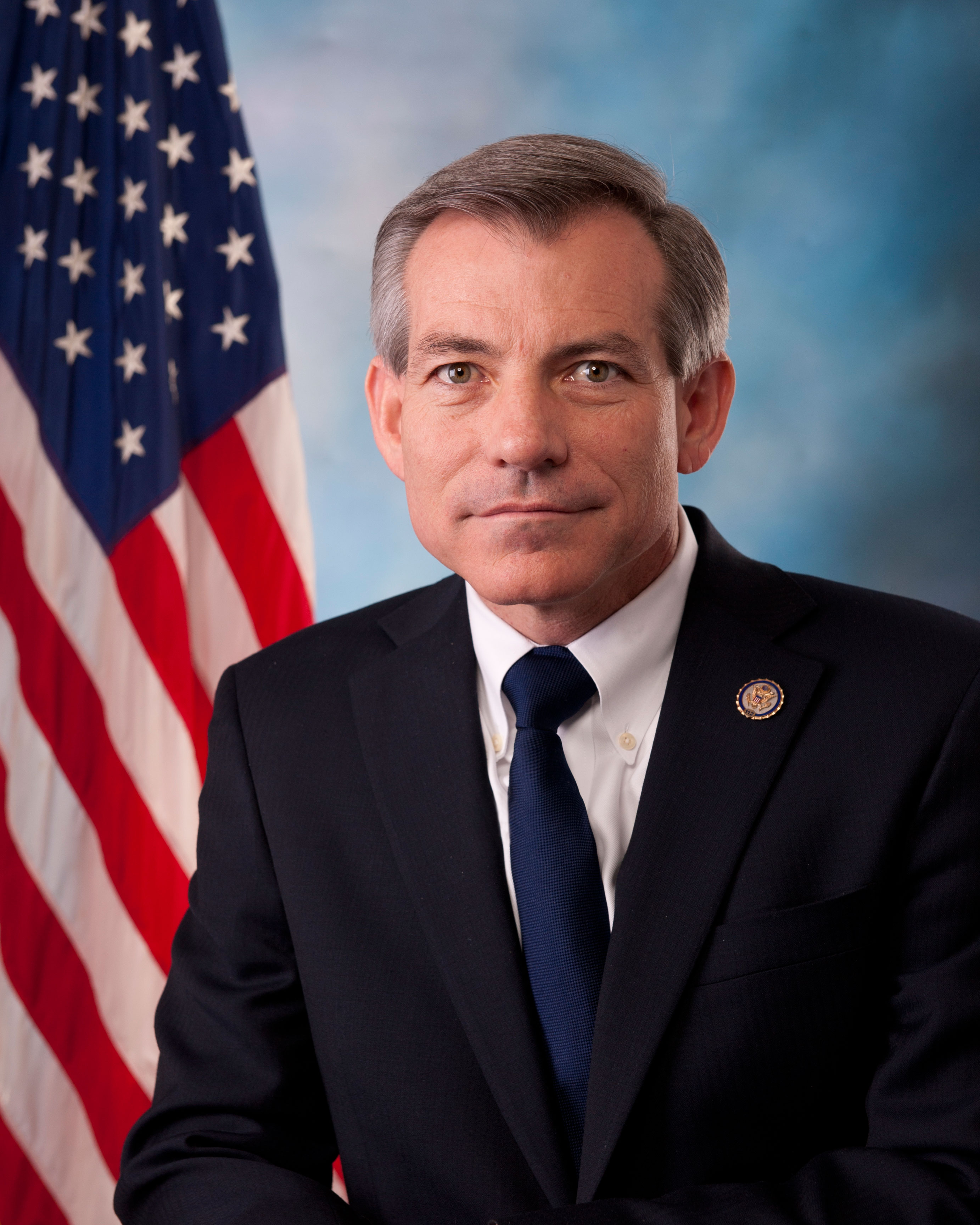 Official portrait of US Rep David Schweikert